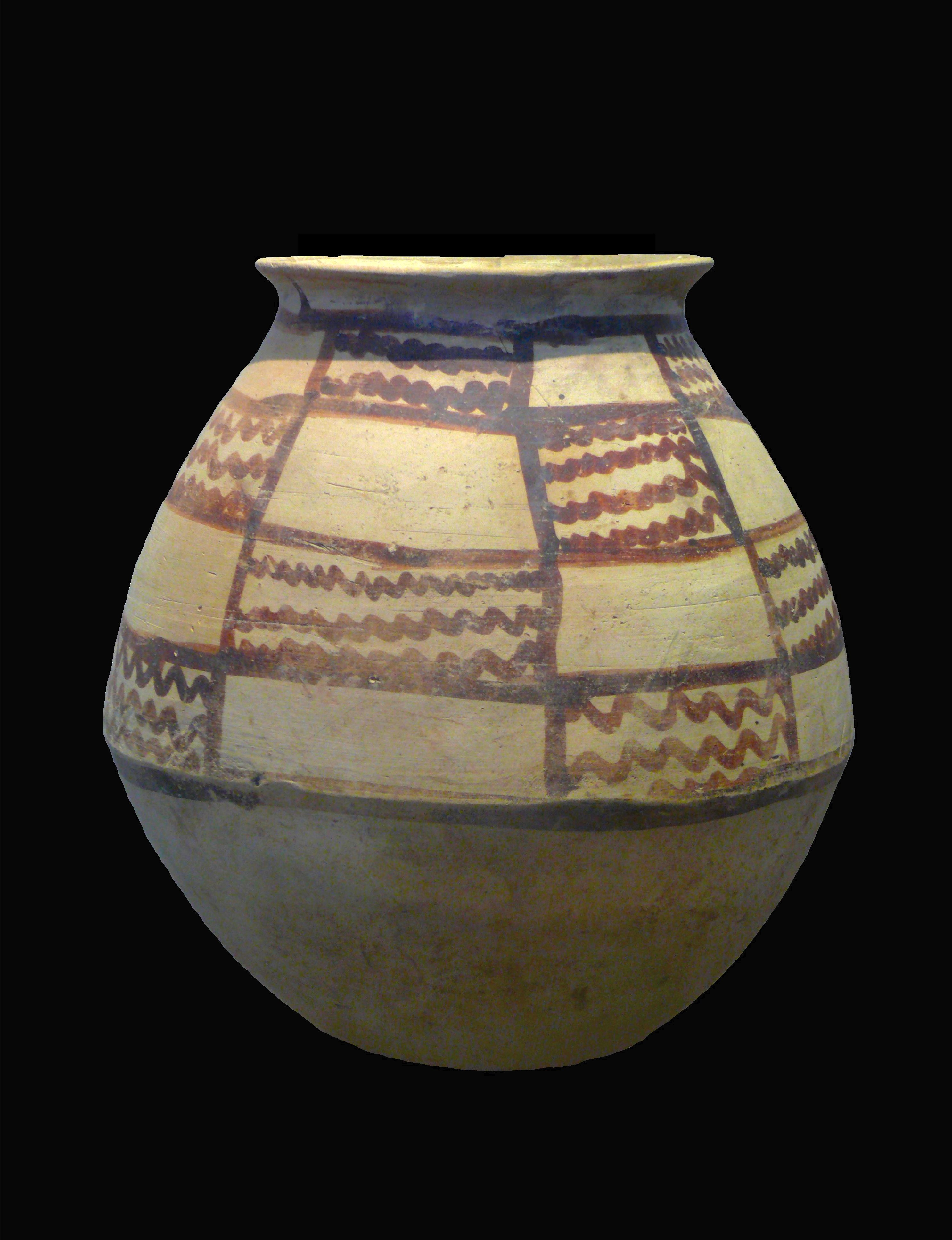 Painted pottery, Iranian bronze age of Tureng tepe (Gorgan province, North of Iran) 2nd millennium BCE at the Louvre Museum, Paris, France, March 2010. Poterie peinte, âge de bronze iranien provenant de Tureng tepe (province de Gorgan, Nord de l’Iran) 2ème millénaire BCE au musée du Louvre, Paris, France, Mars 2010.